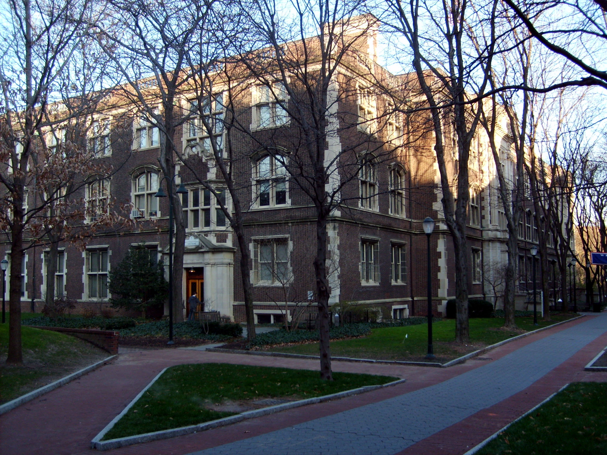 Smith Walk, view of Towne Hall